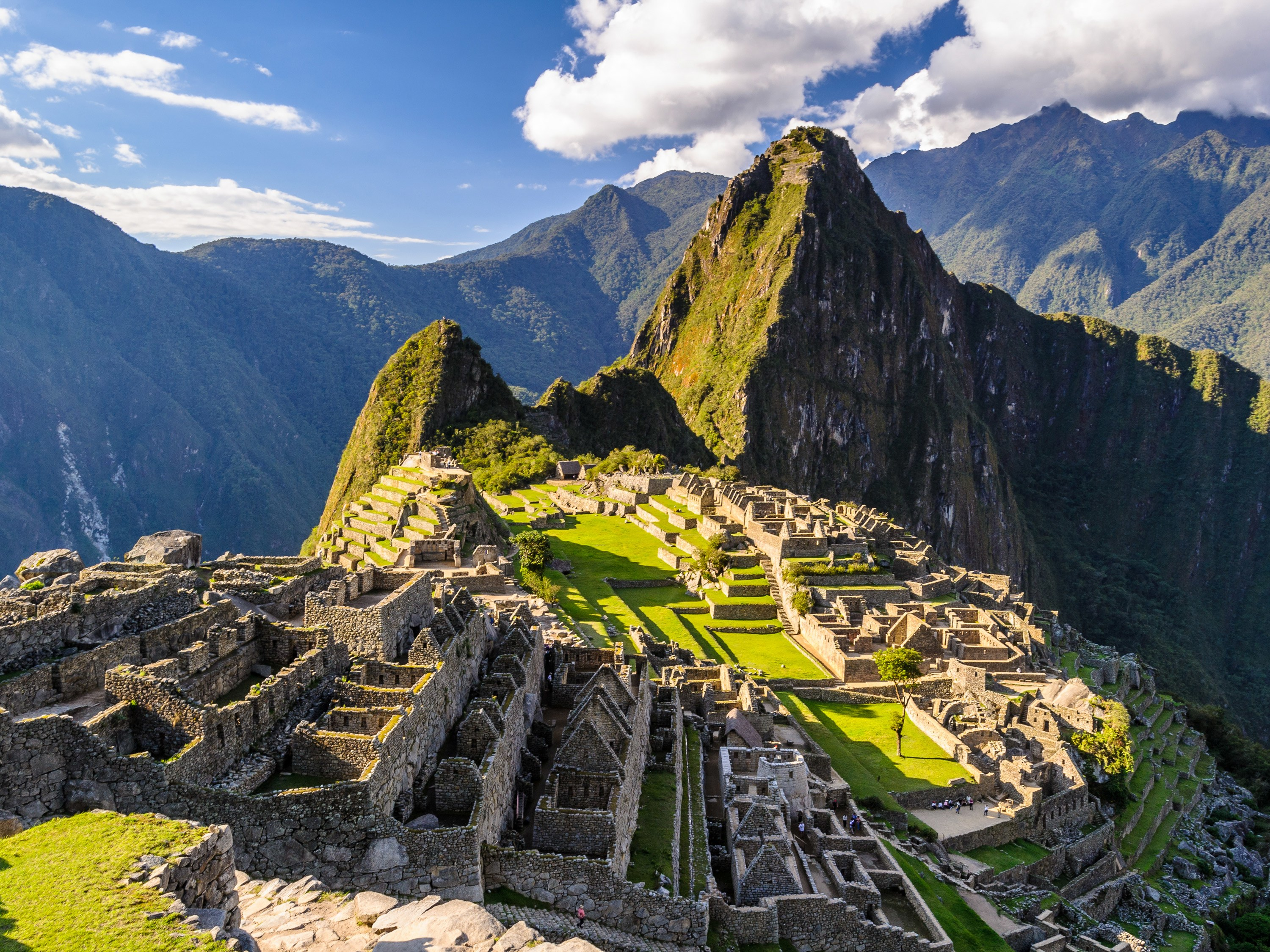 If you want to use this image on your website please credit to zielonamapa.pl with a „do-follow” attribute. Please be respectful to my terms and conditions.